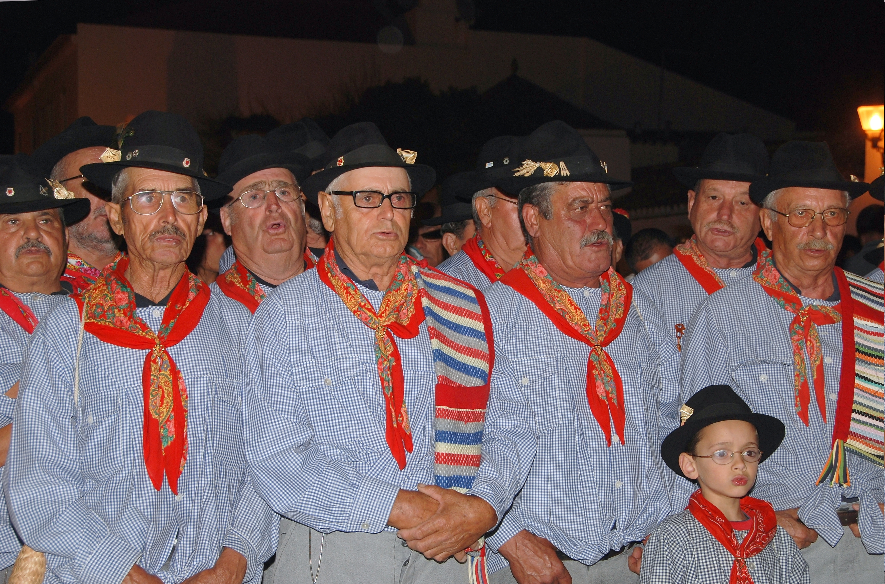 The tradicional coral group "Vozes de Almodovar" performing in Porto Covo, Portugal